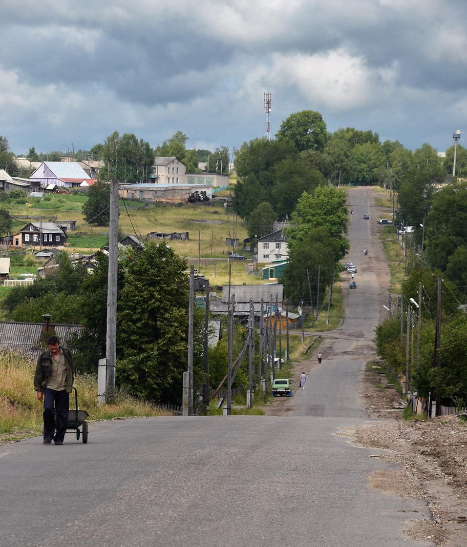 Лойно